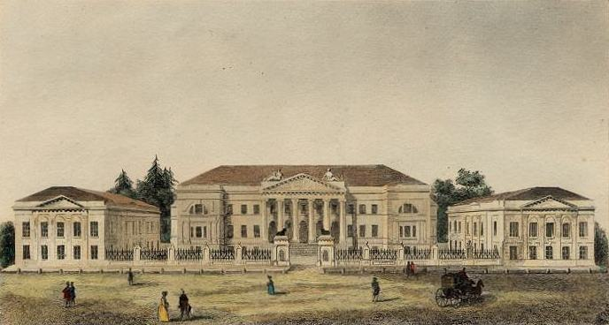 "College des Armeniens a Moscou" steel engraved print with recent hand colouring, published in a volume of L'Univers, Paris, in 1838. Size 17 x 11 cms including title plus margins. Ref F6600